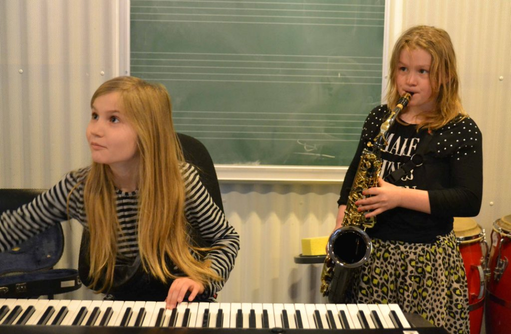 Kids playing experimental jazz during nation wide Improbasen workshop in Denmark